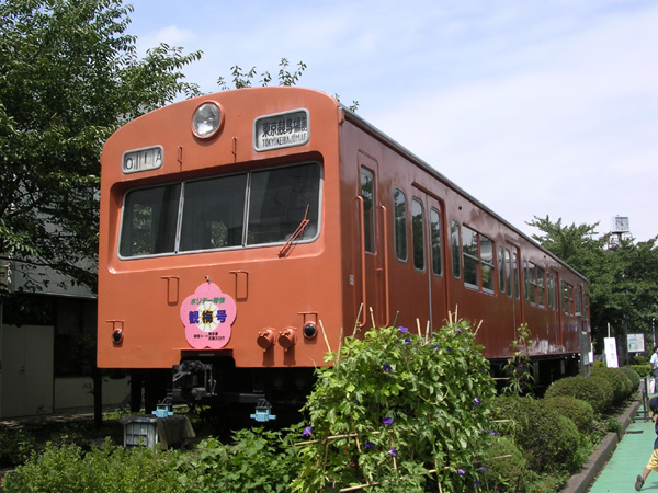 Prototype 101 series car KuMoHa101-902 preserved at Tokyo General Rolling Stock Center